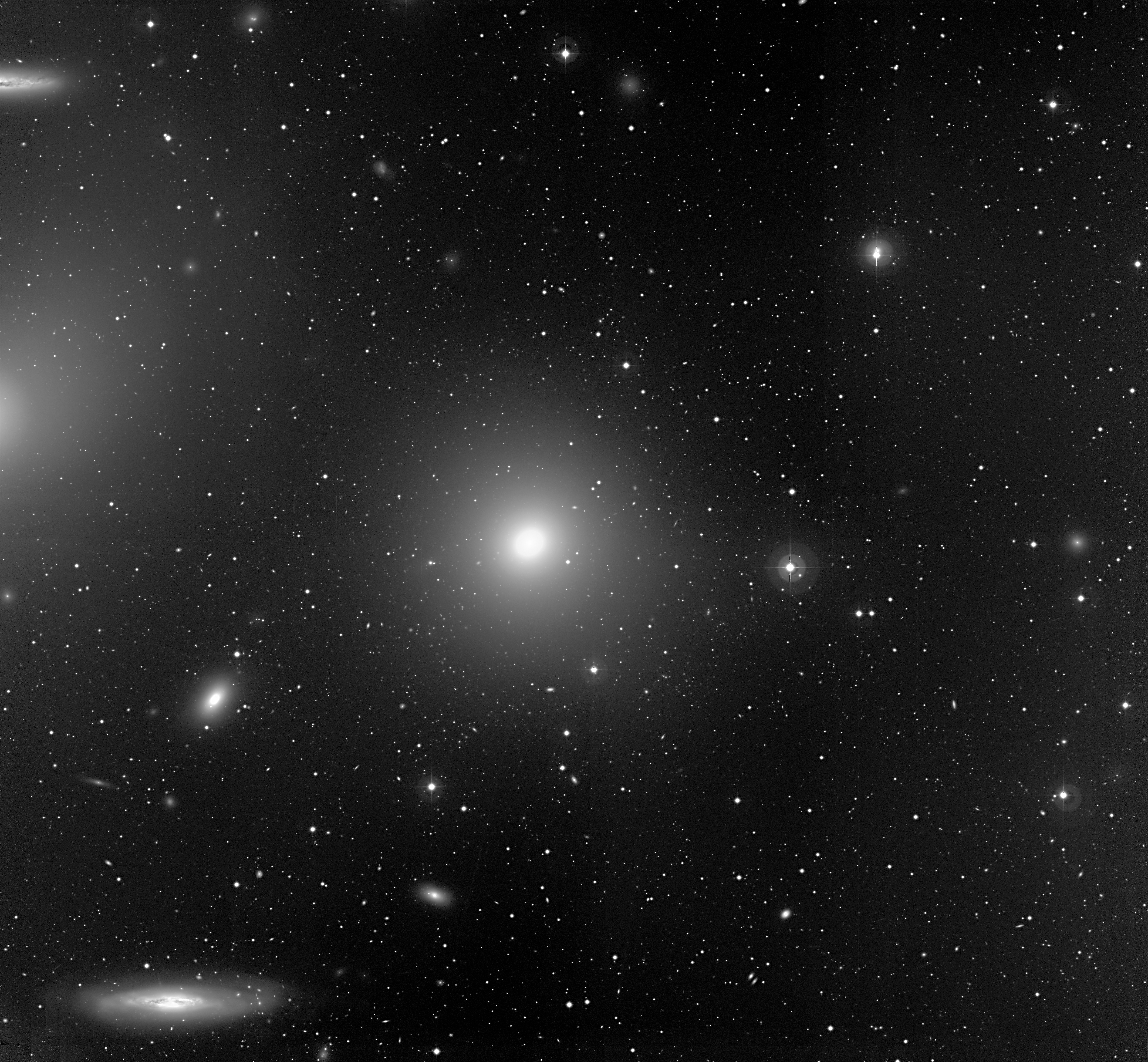 Sky field near some of the brighter galaxies in the Virgo Cluster. This image was obtained in April 2000 with the Wide Field Imager (WFI) at the La Silla Observatory. The large elliptical galaxy at the centre is Messier 84; the elongated image of NGC 4388 (an active spiral galaxy, seen from the side) is in the lower left corner. The field measures 16.9 x 15.7 square arcmin. ID: phot-04a-03-hires Size: 4252x3933 Credit: ESO